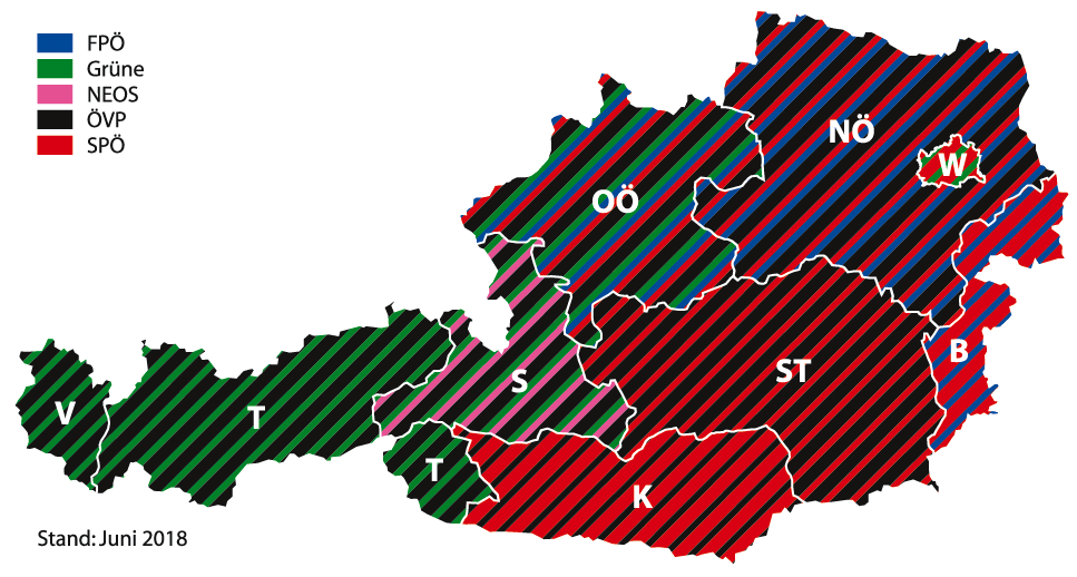 Governments of the Austrian states, June 2018